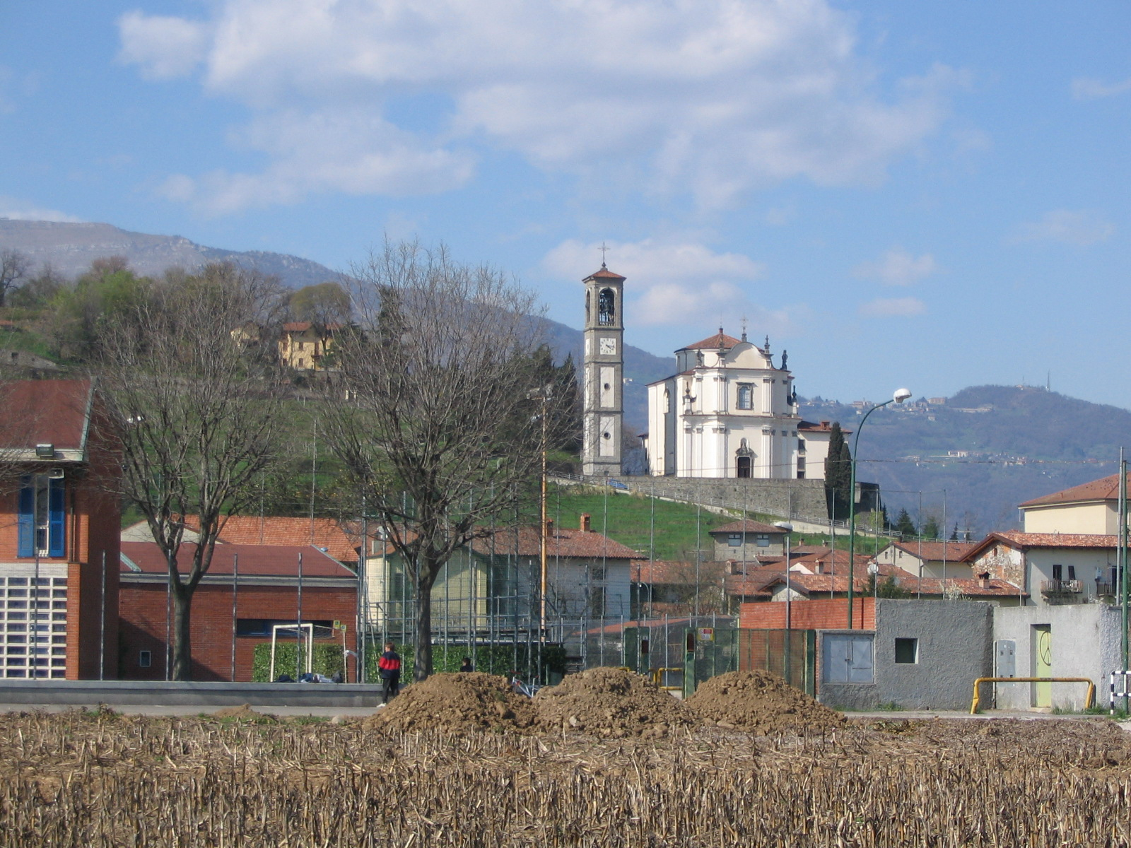 Mapello, Bergamo, Italy - Parish church of St. Michael (archangel)